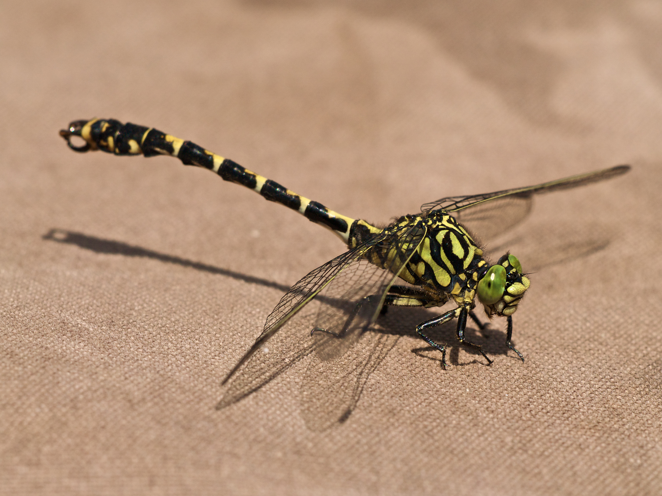 Male Small Pincertail (Onychogomphus forcipatus), Småland, Sweden